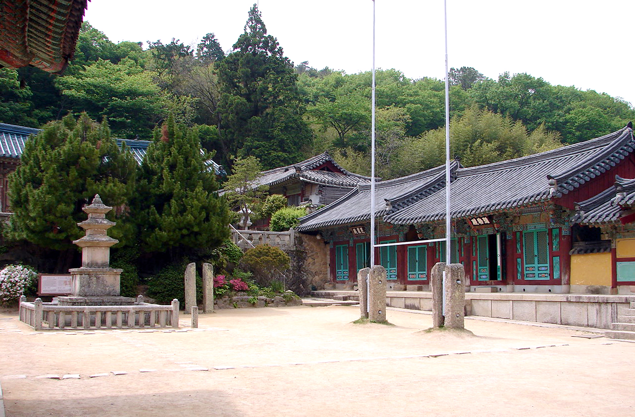 Beomeosa 3 Storied Pagoda, Birojeon & Mireukjeon. Birojeon - The Hall to Vairocana, the Cosmic Buddha. Mireukjeon - The Hall to Maitreya, Buddha of the Future.